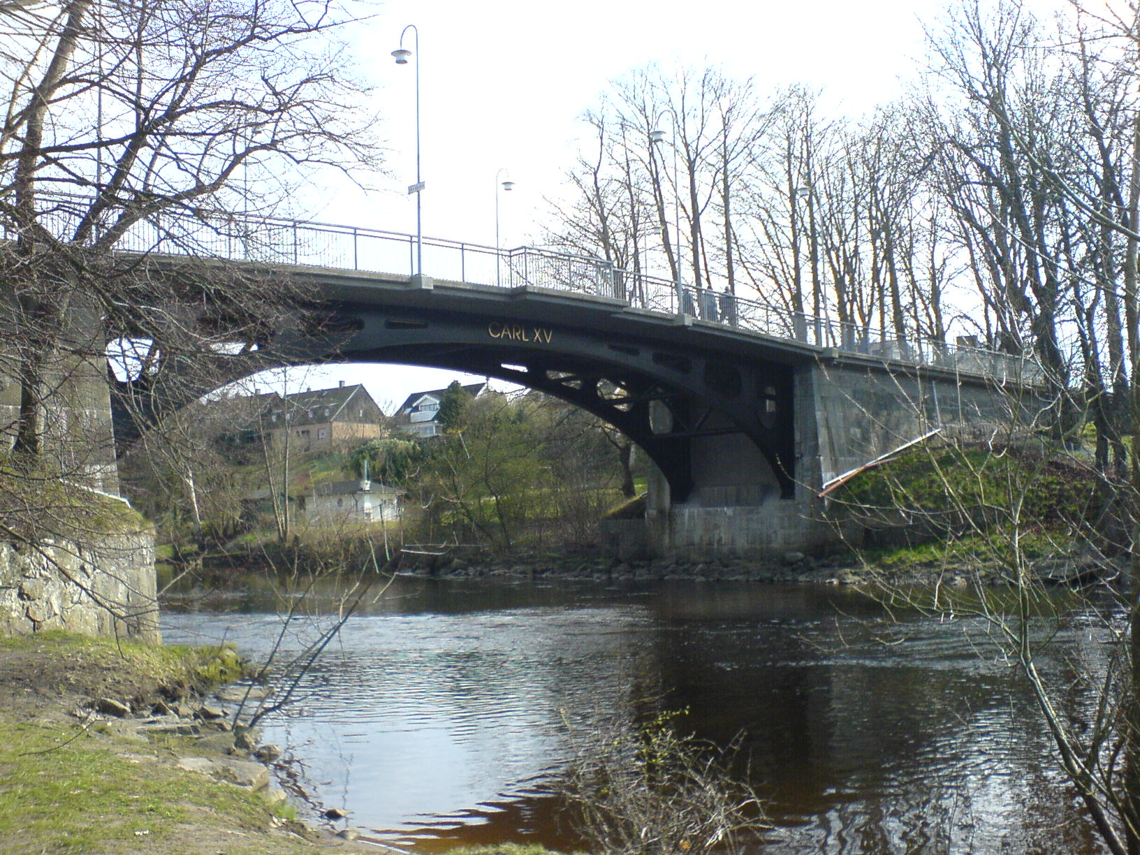 Carl XV's Bridge in Ängelholm, Sweden. 13 April 2008.